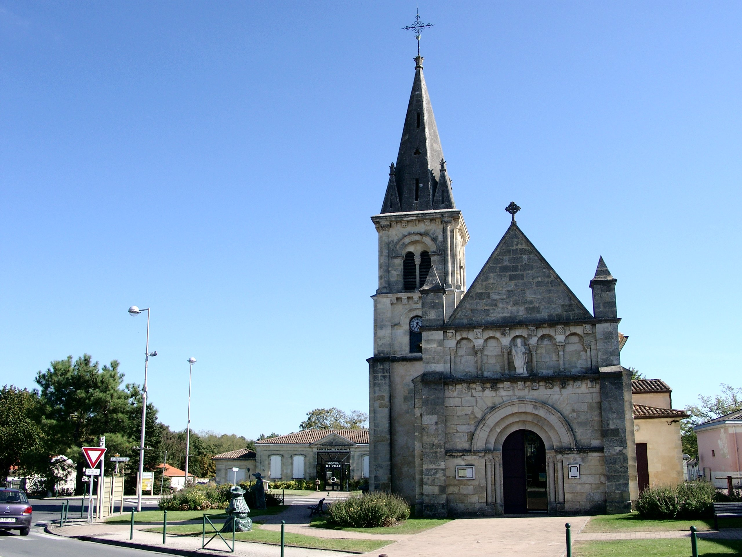 Martignas-sur-Jalle church (France, Gironde), 1856.